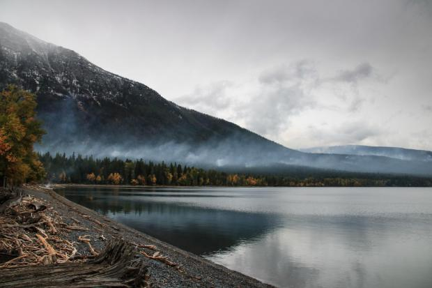 Sprague Fire smolders on October 2, 2017 near Lake McDonald in Glacier National Park